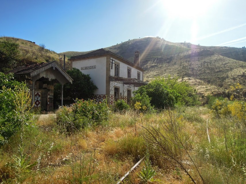 Former train station of Almendra, Portugal